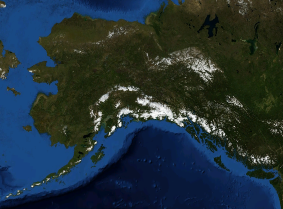 Alaska satellite image, from NASA's PD World Wind.